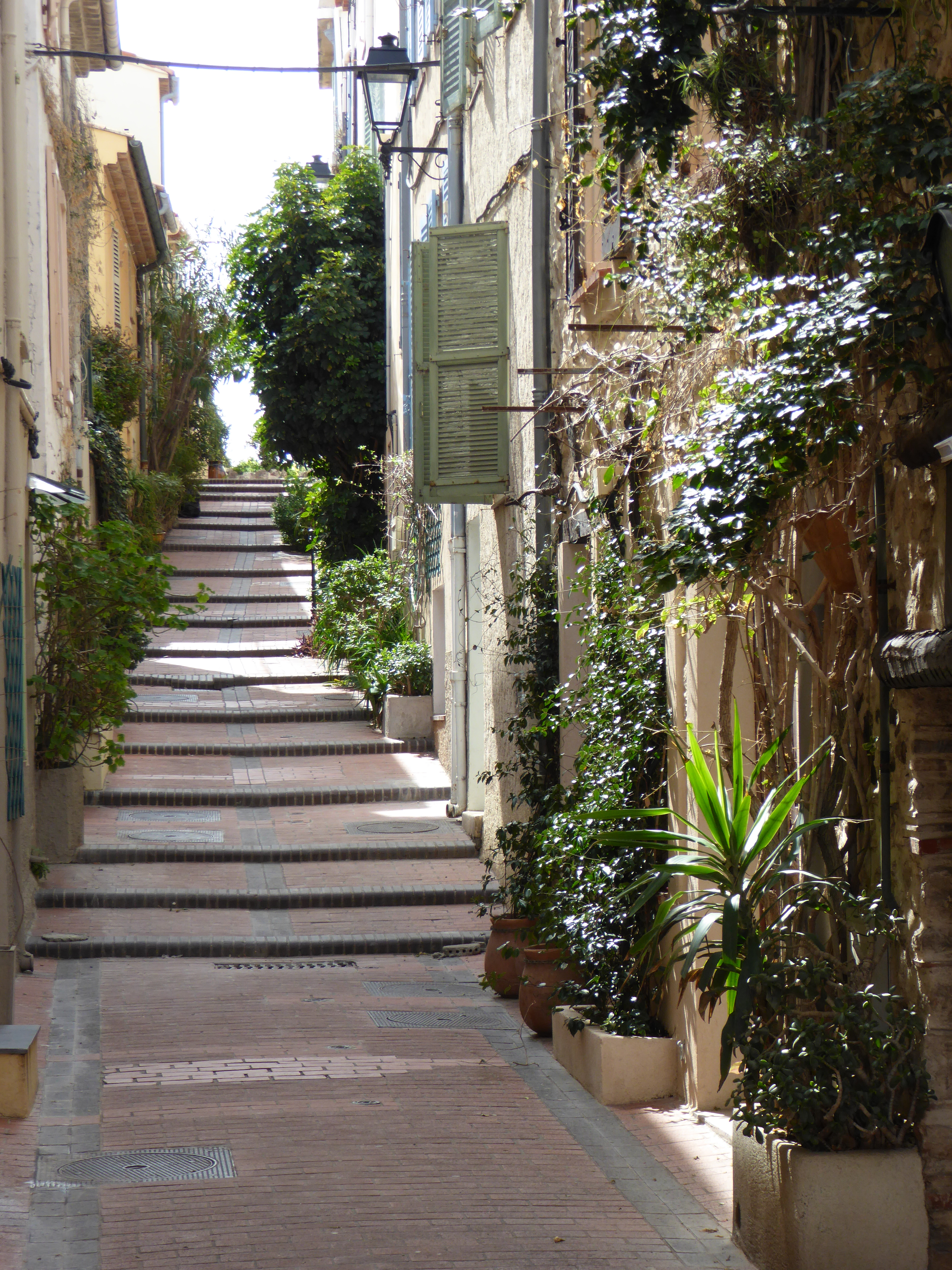 streets in Antibes